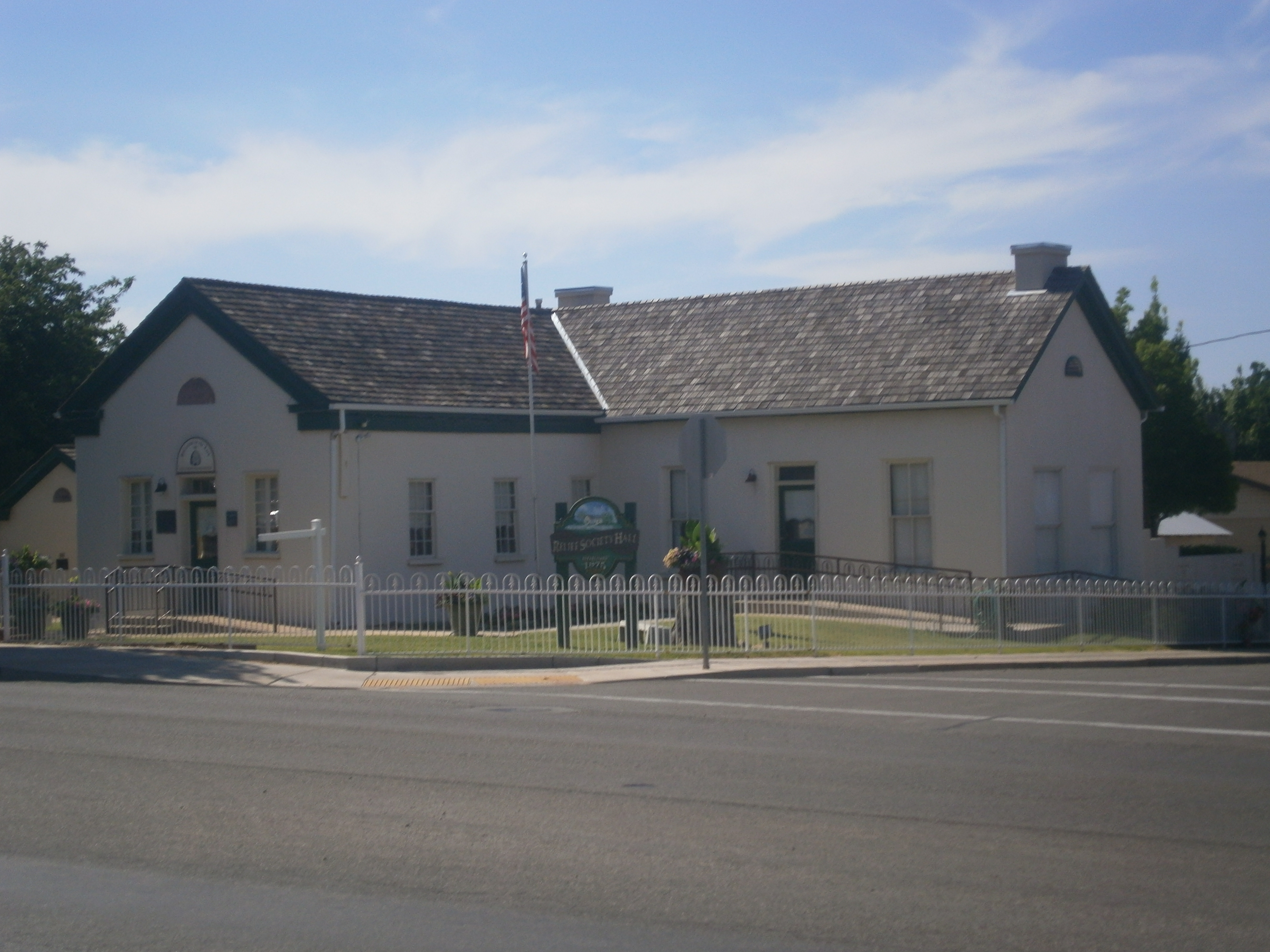 The Washington Relief Society Hall, a historic building in Washington, Utah, United States.